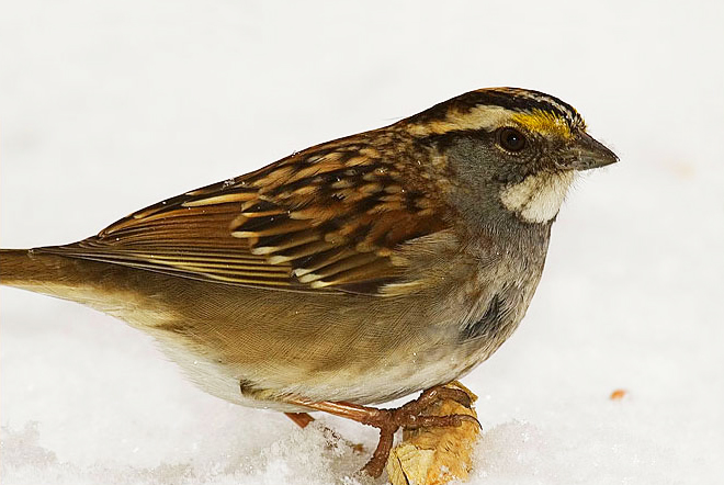 White-Throated Sparrow.